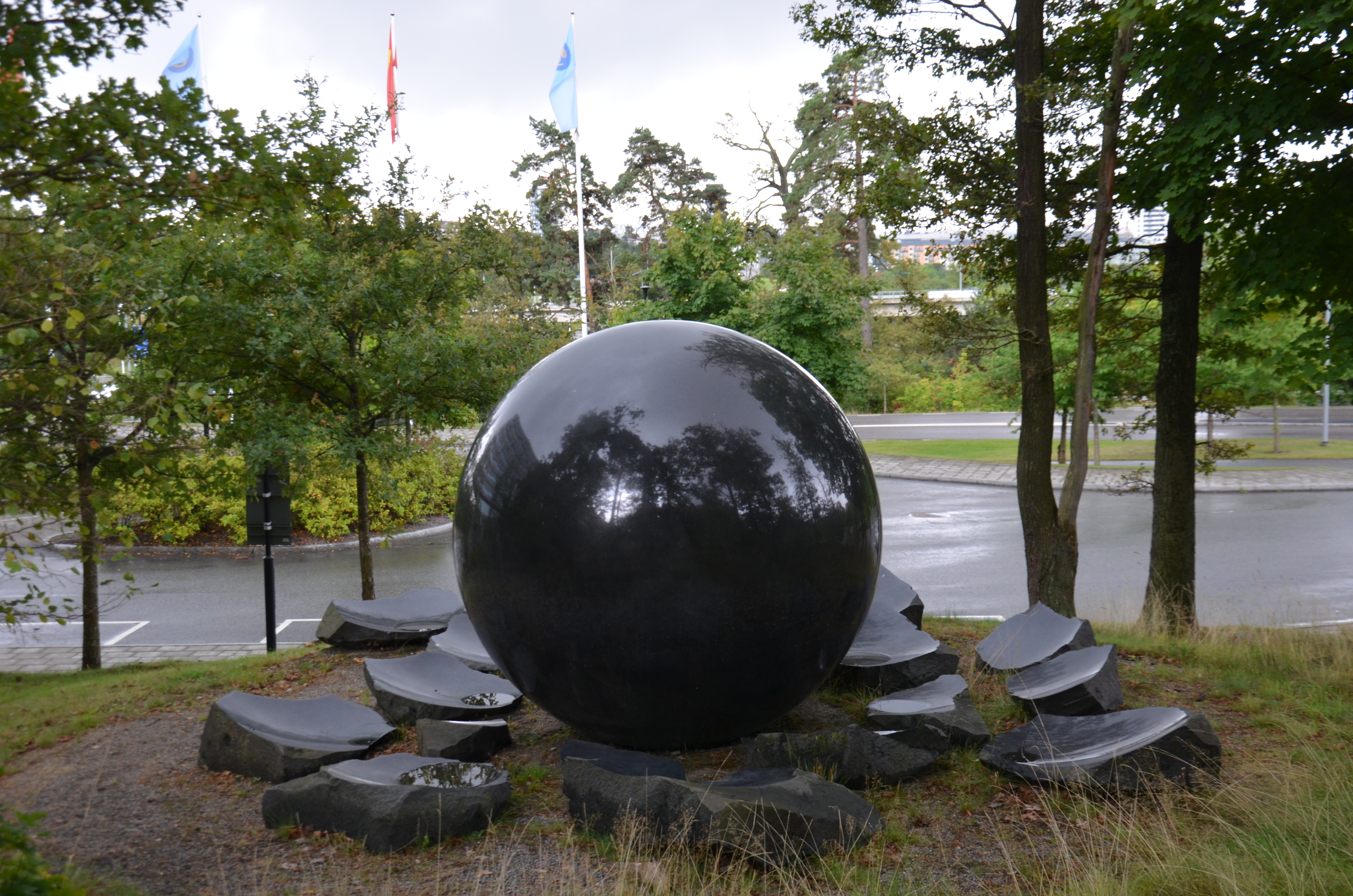 Sprungen ur av Pål Svensson, diabas, utanför PostNord i Solna